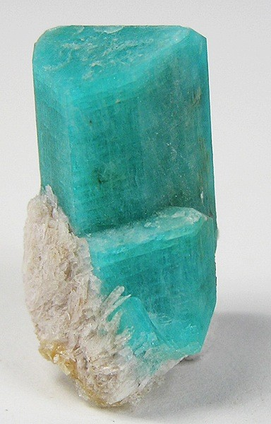 Microcline (Var.: Amazonite), Albite Locality: R. A. Kosnar claim, Yucca Hill, Steven's Ranch, Lake George, Park County, Colorado, USA (Locality at ) Size: 2.4 x 1.4 x 1.4 cm. This fine Colorado amazonite thumbnail is from Richard Kosnar’s personal collection, from his own claim in Park County. The color and form are the superb, the crystal is complete all the way around, and the albite gives it just the right accent.